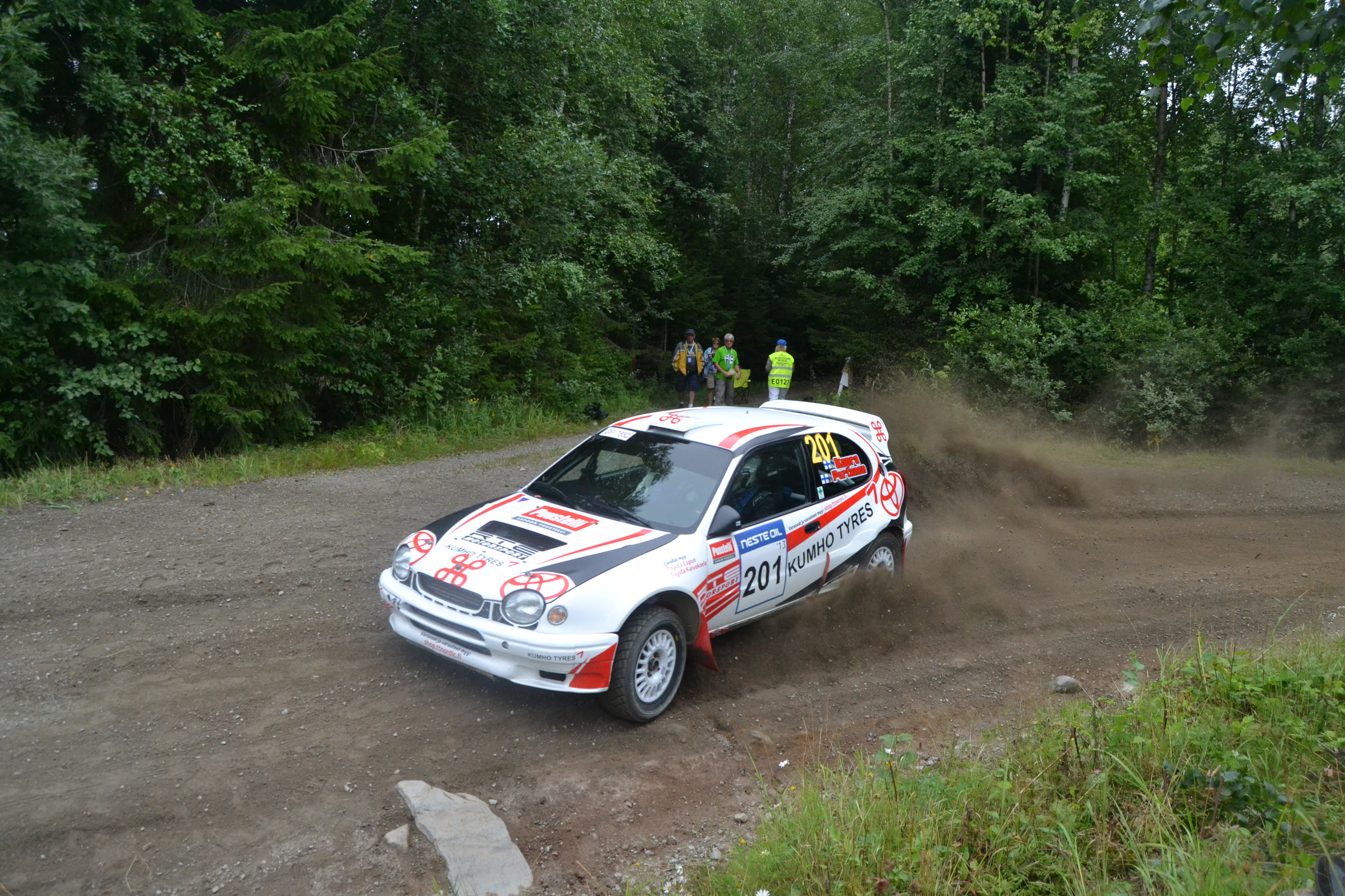 Seppo Kopra at Surkee stage at Nelivetomies 2013